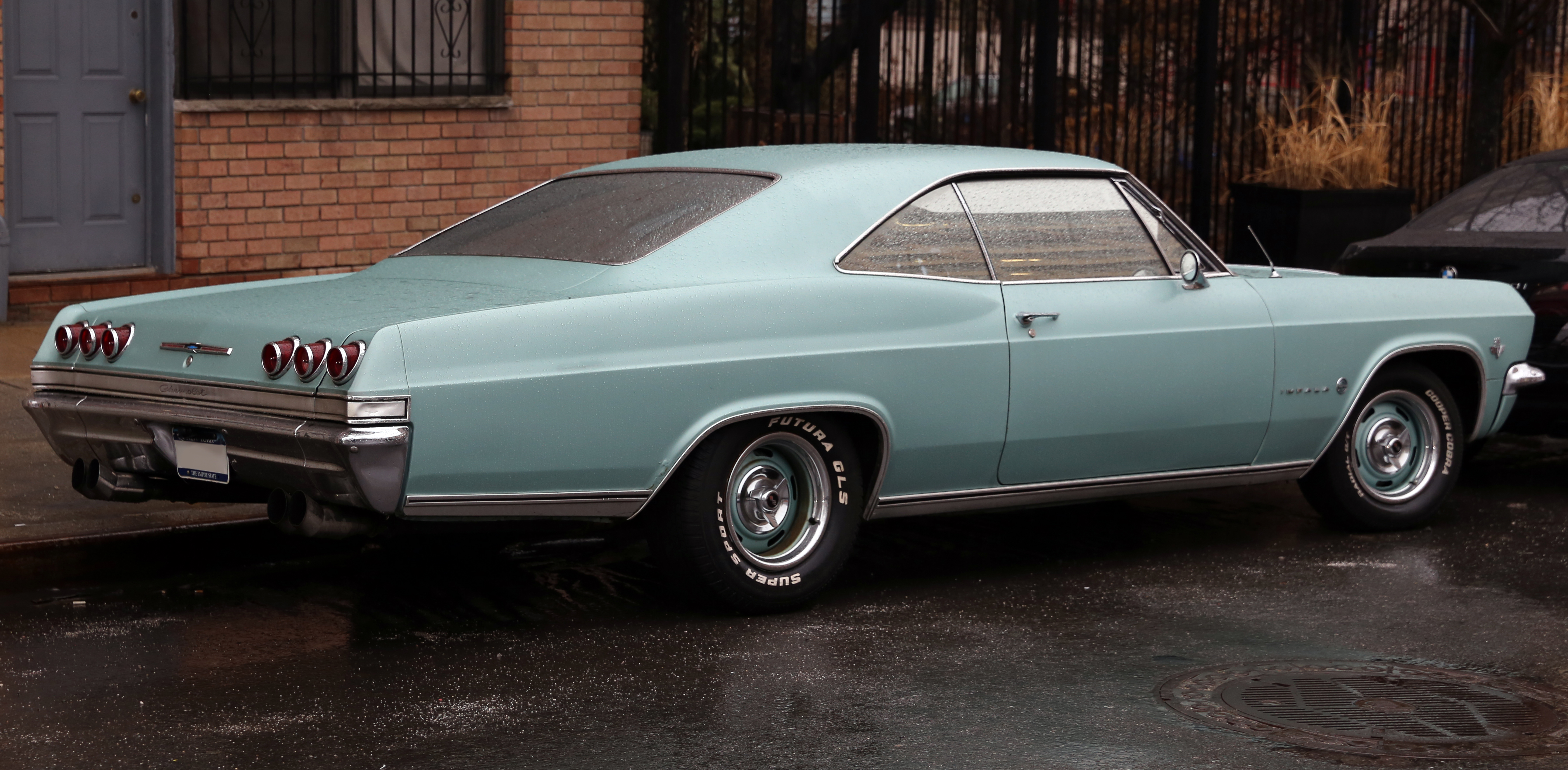 1965 Chevrolet Impala Sport Coupe. Fitted with the 283 ci small-block V8 engine and assembled in Tarrytown, NY.